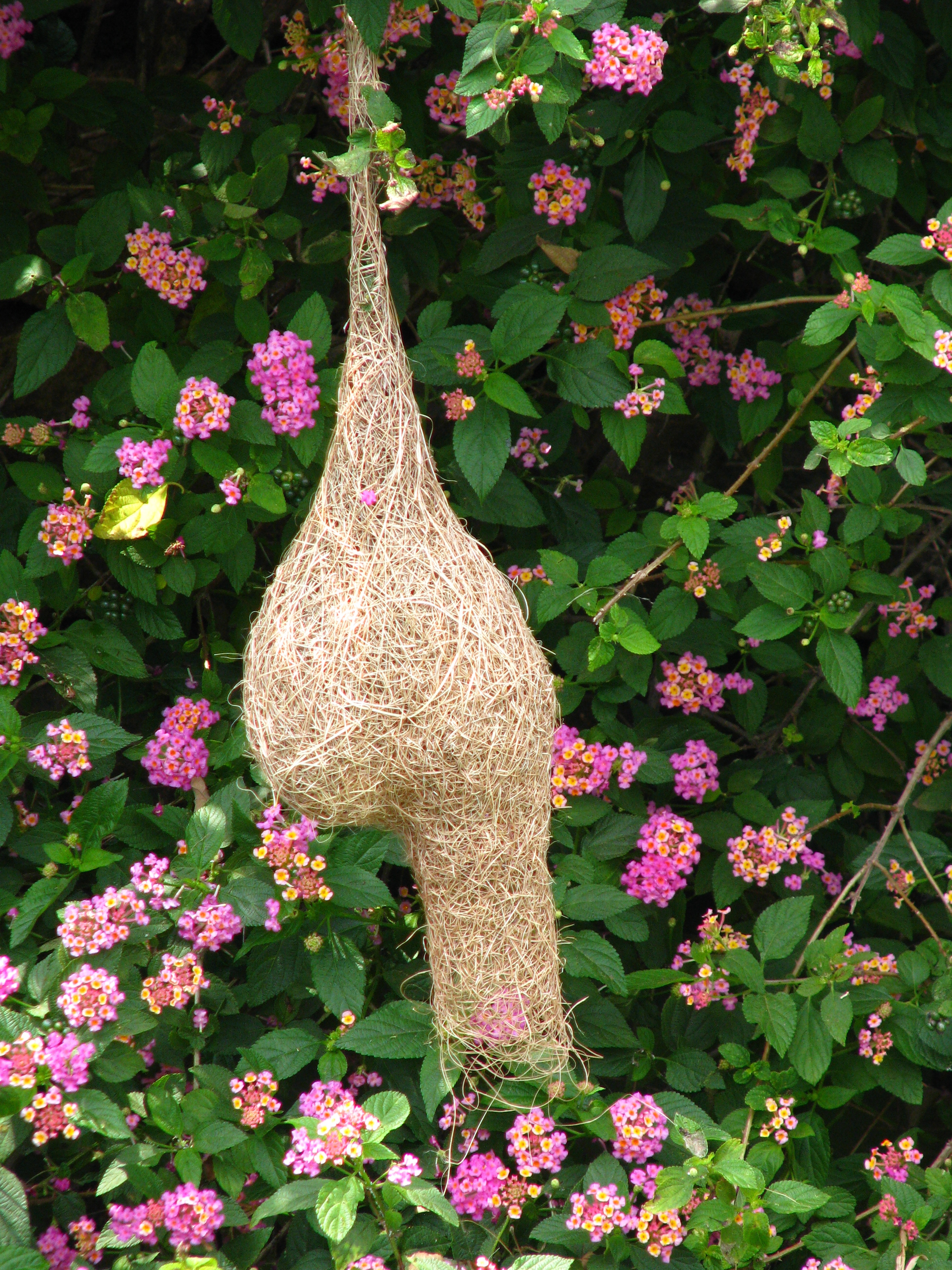 A Bird's nest at Yelagiri, India